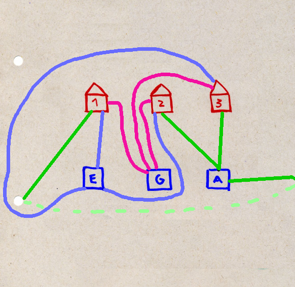 Solución to the "Three utility problem", if its allowed to use the reverse of a drilled paper.